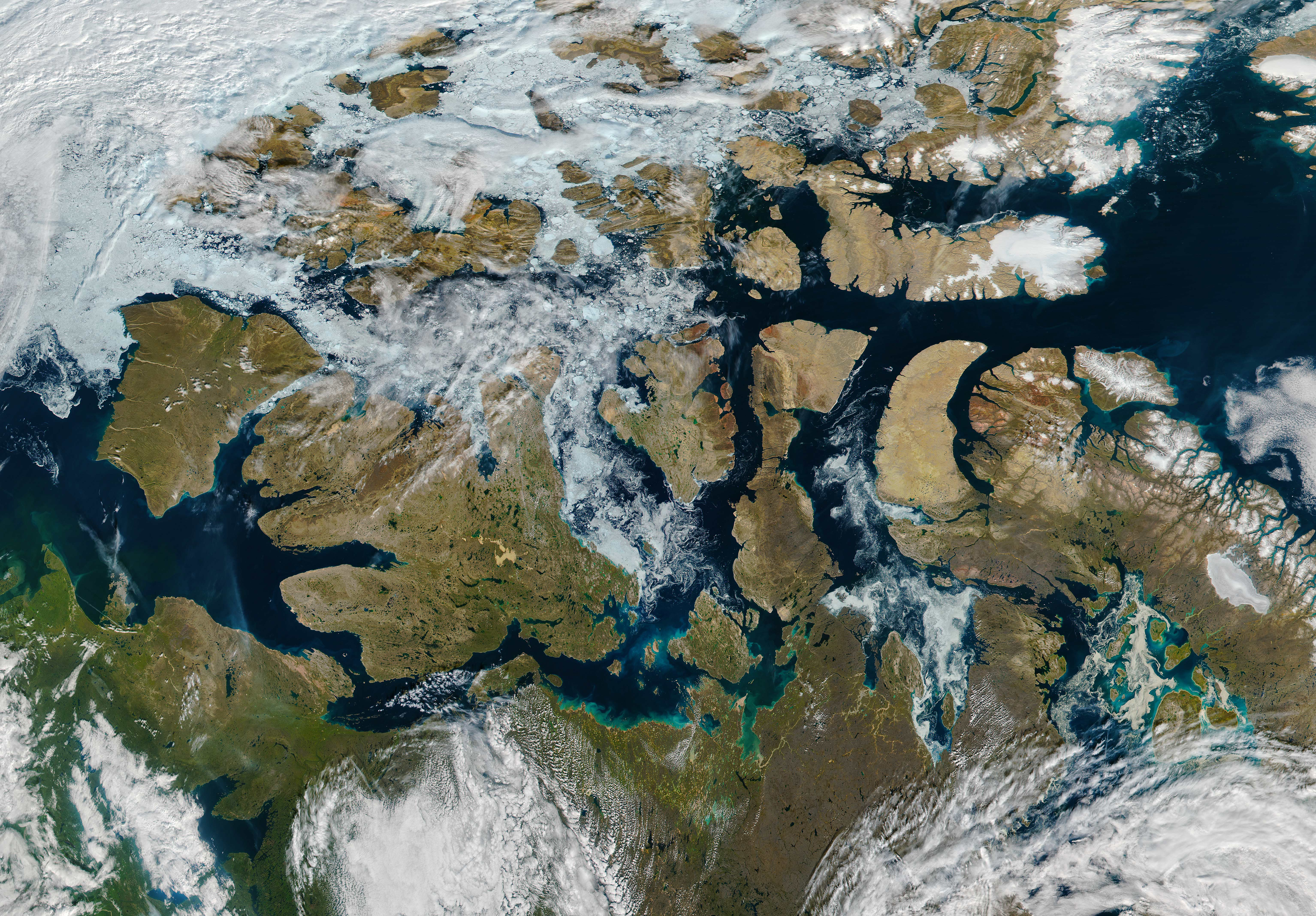 The Northwest Passage is a famed high-latitude sea route in the Arctic. The route meanders through the Canadian Arctic Archipelago, connecting the North Atlantic and Pacific Oceans. For most of the year, its waters are choked with sea ice. But by mid-August 2016, the passage was nearly ice-free. The Visible Infrared Imaging Radiometer Suite (VIIRS) on the Suomi NPP satellite captured this image of the Northwest Passage on August 9, 2016. A path of open water can be traced almost the entire distance from the Amundsen Gulf to Baffin Bay, encountering a scattering of broken ice just east of Victoria Island. This is not the first Arctic summer with so much open water. According to NOAA, the more frequent opening of the Northwest Passage means that it is becoming an increasingly viable route for shipping.